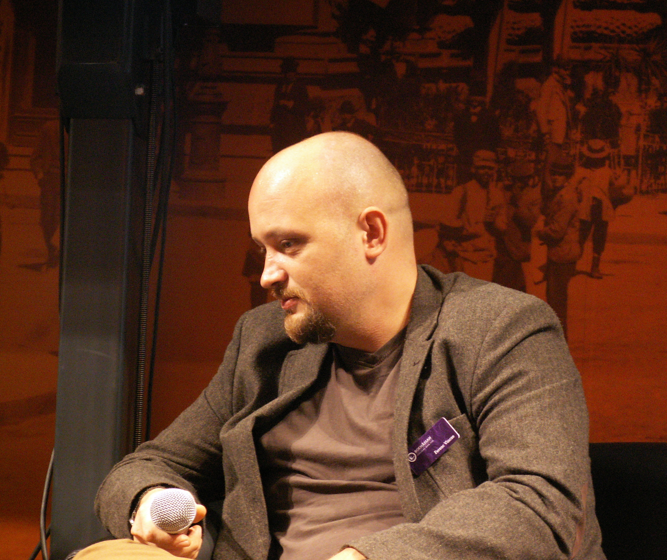 Ferenc Vincze at the Göteborg Book Fair.